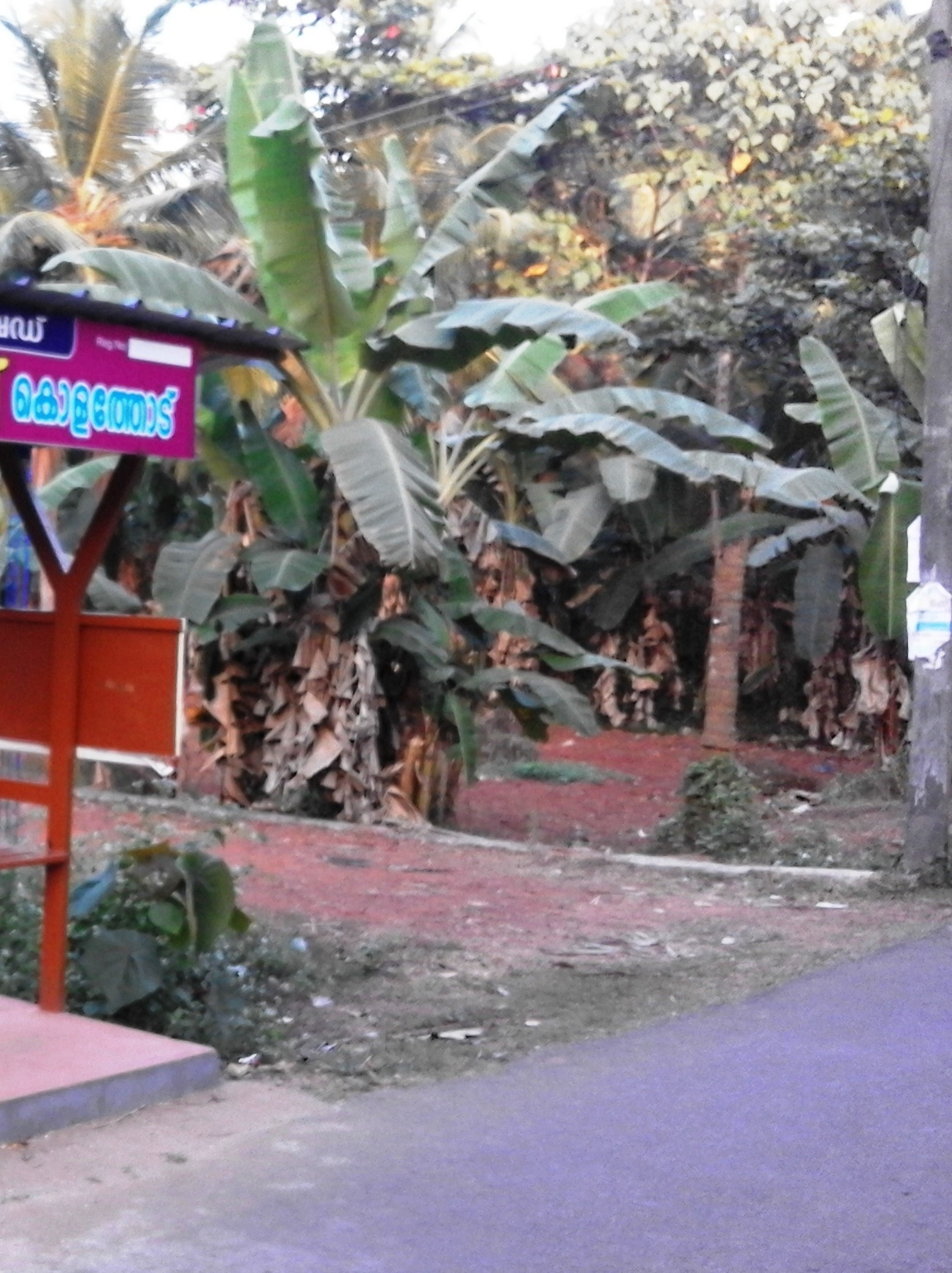 Tenhippalam, Malappuram District, Kerala, India